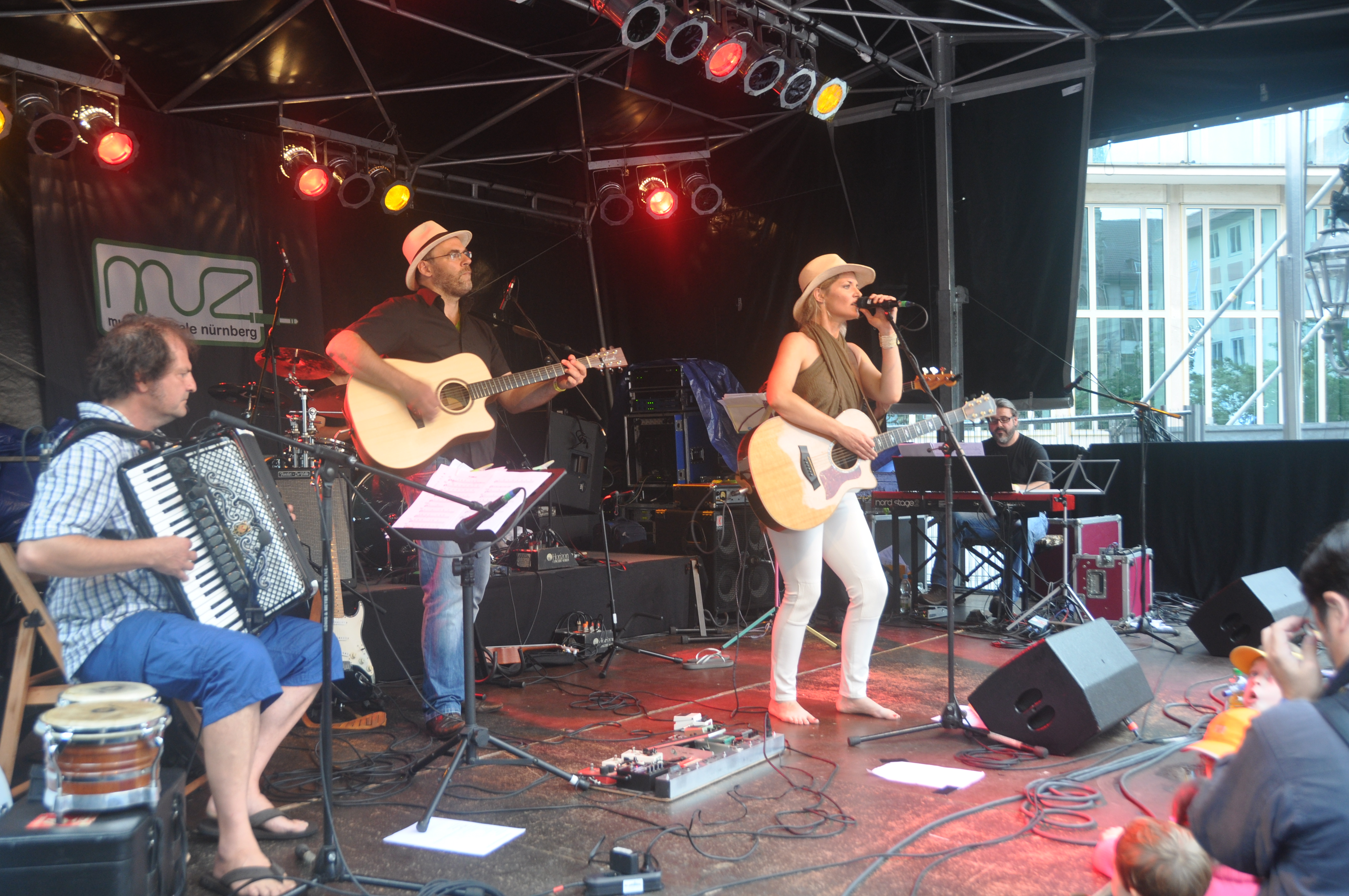 Samantha Stollenwerck (USA / Germany), appearance at the 39th music festival "Bardentreffen" 2014 in Nuremberg, Germany, Lorenz square stage